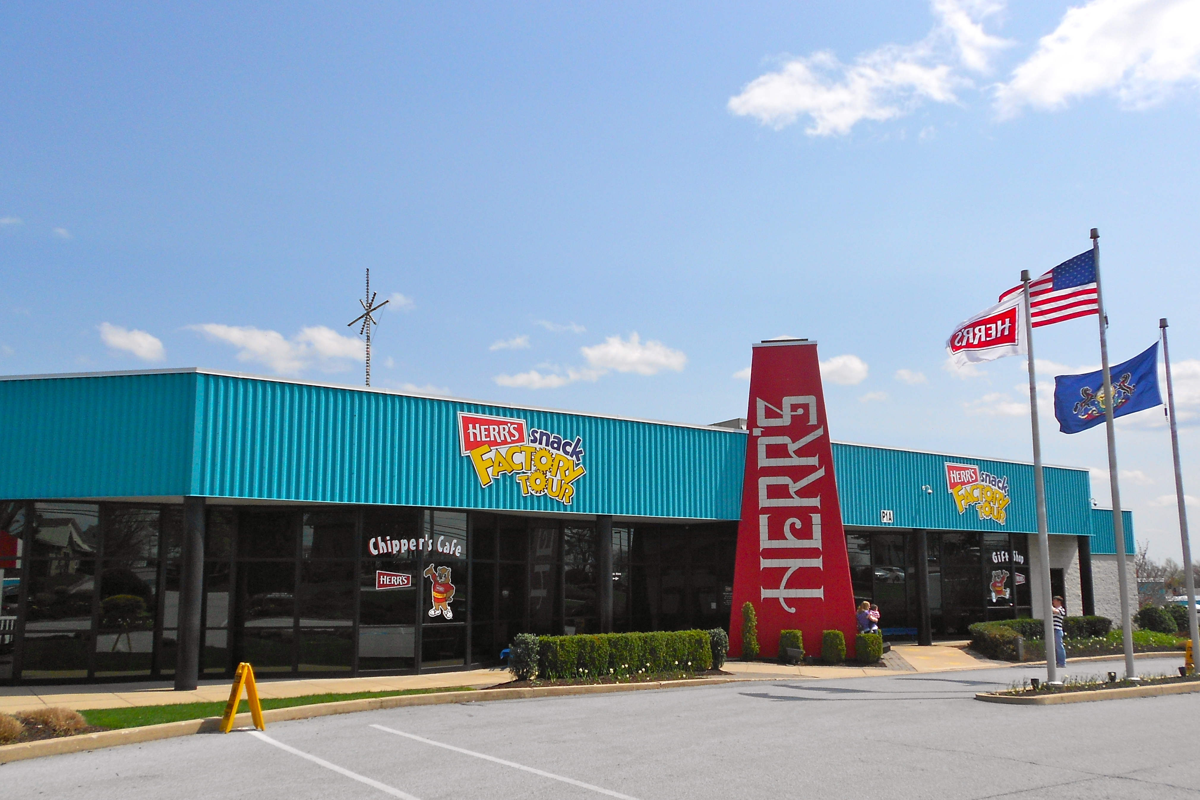 Visitors Center of Herr's Snacks in Nottingham, West Nottingham Township, Chester County, Pennsylvania